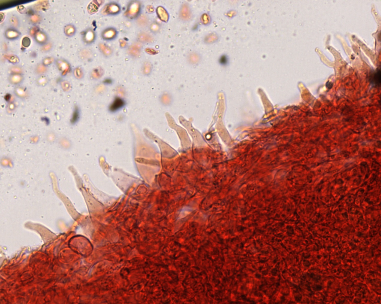 Mycena bulliformis B.A. Perry & Desjardin Image location: Ponderosa Lodge, Graham Hill Rd., Santa Cruz, California, USA Large fruitings all over the place, growing on cut side of logs, from holes in barkless logs, or just any rotten wood. The logs are probably of Ponderosa pine, but there are other trees around as well. Odor and taste mildly raphanoid. Spores 8-10.5 × 5.5-6. Pileipellis covered by a mass of ‘cysts’ up to 12 microns wide, which are perhaps fallen off excrescences. Wondering how unusual this is. Microscopic view. Recognized by sight For more information about this, see the observation page at Mushroom Observer.